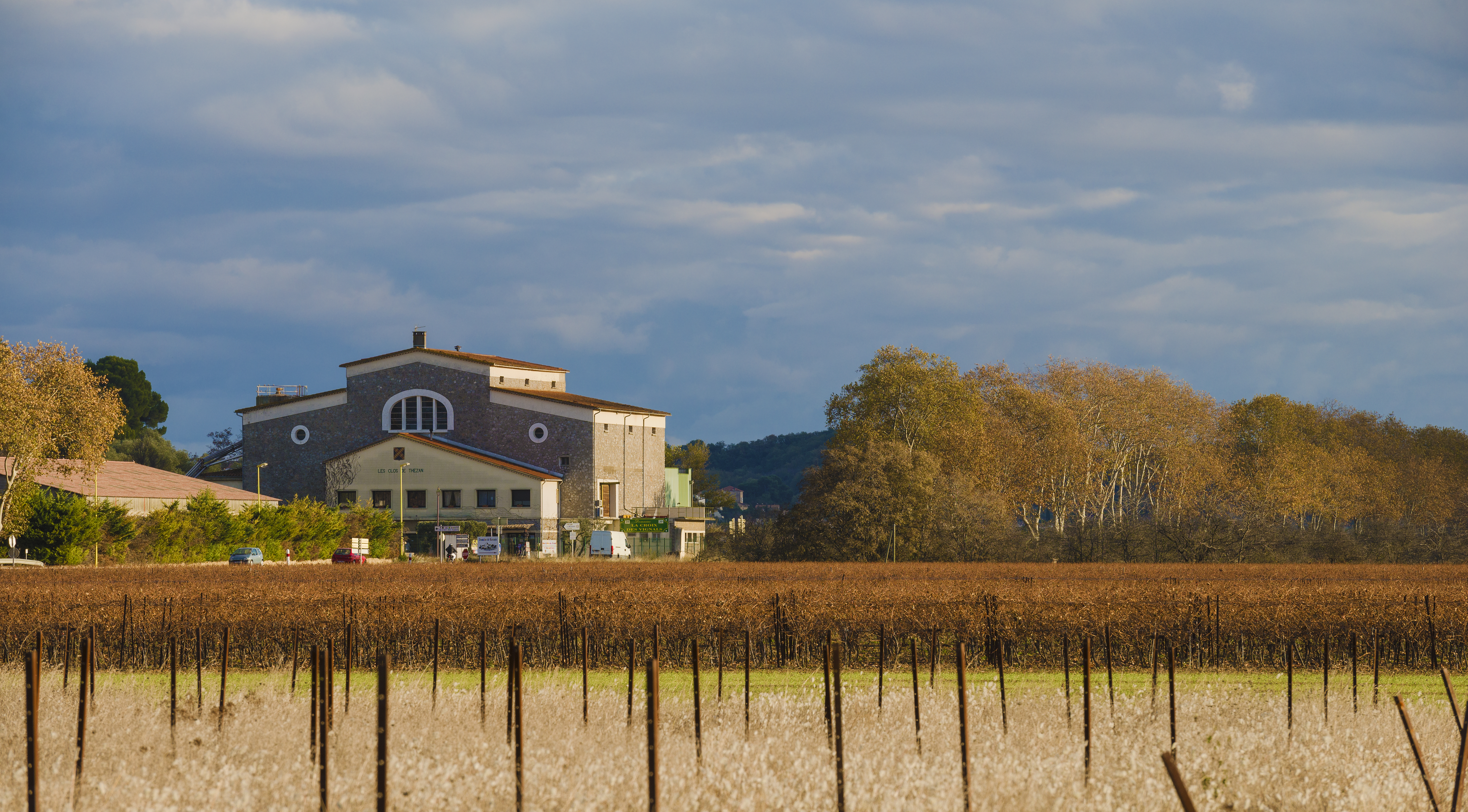 The winemaking cooperative from Nortwest. Thézan-lès-Béziers, Hérault, France.